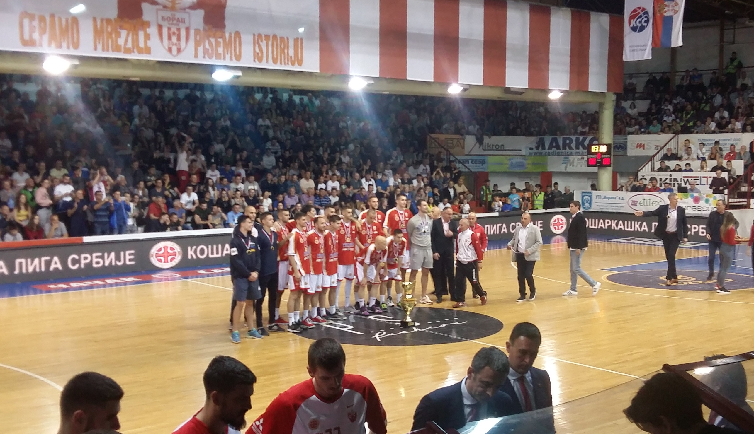 Title for KK Borac first phase in KLS